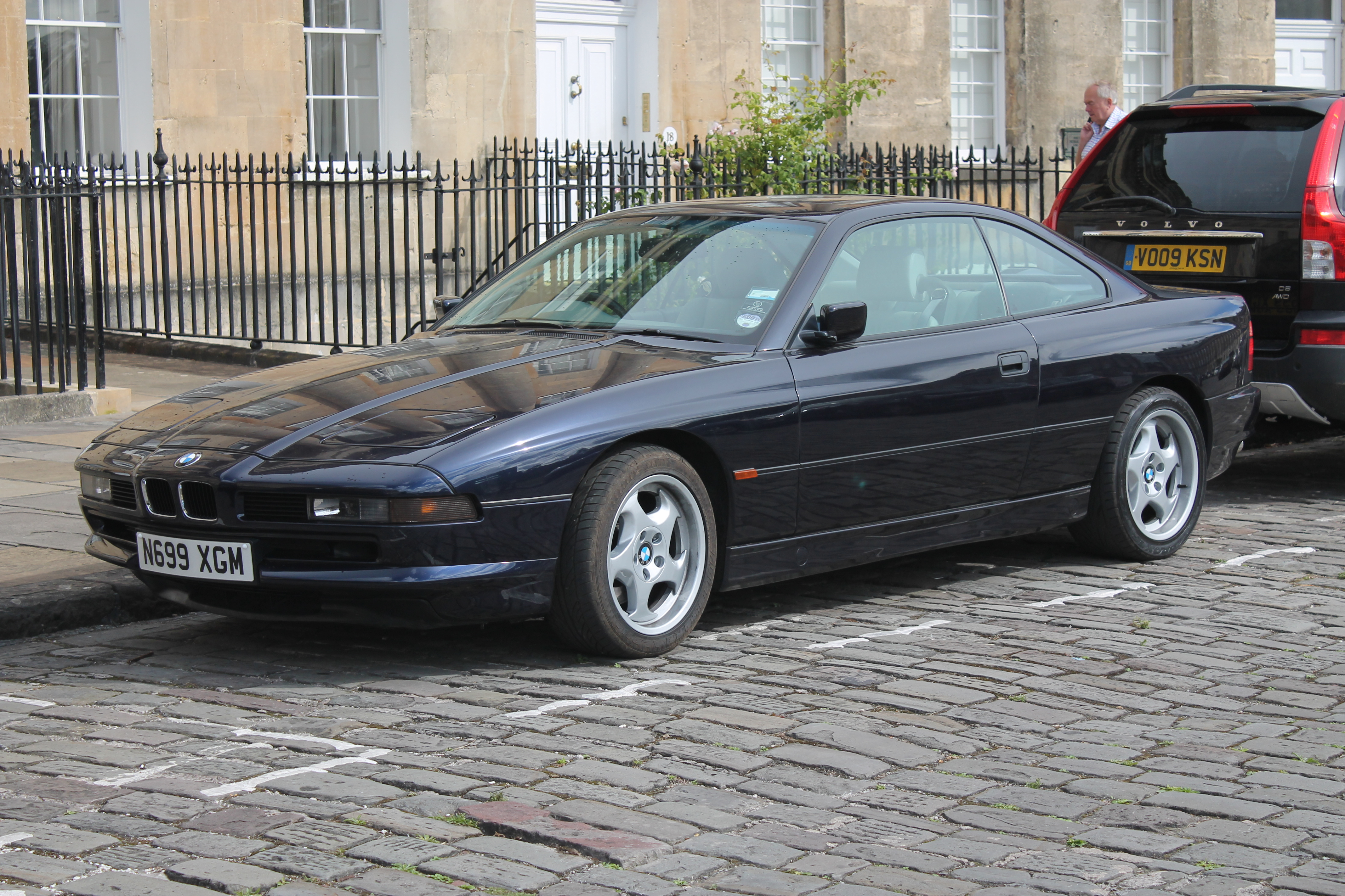 Always been quite uncommon, these BMW 8 series. This is a '96 840ci. A very interesting rakish design with these cars.